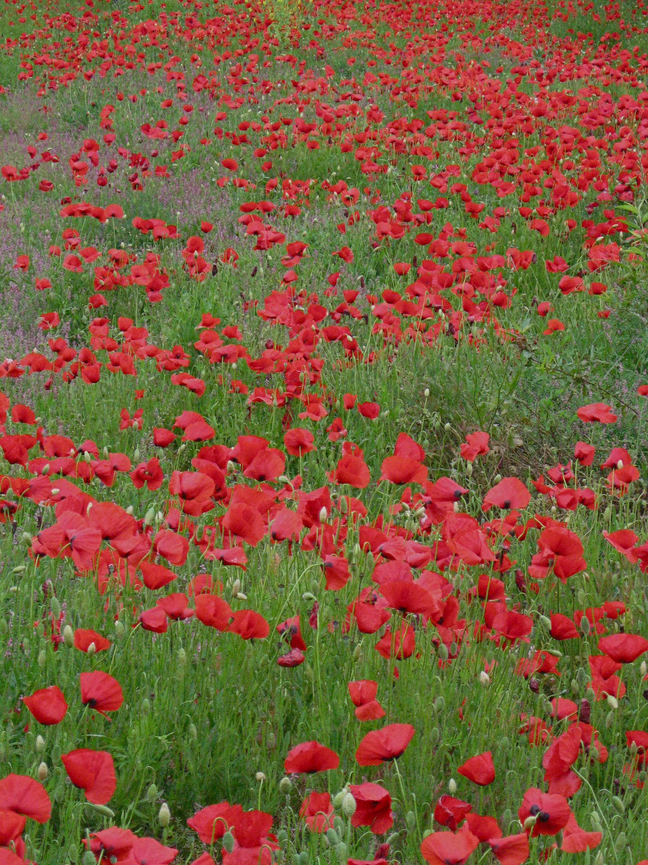 Poppy field